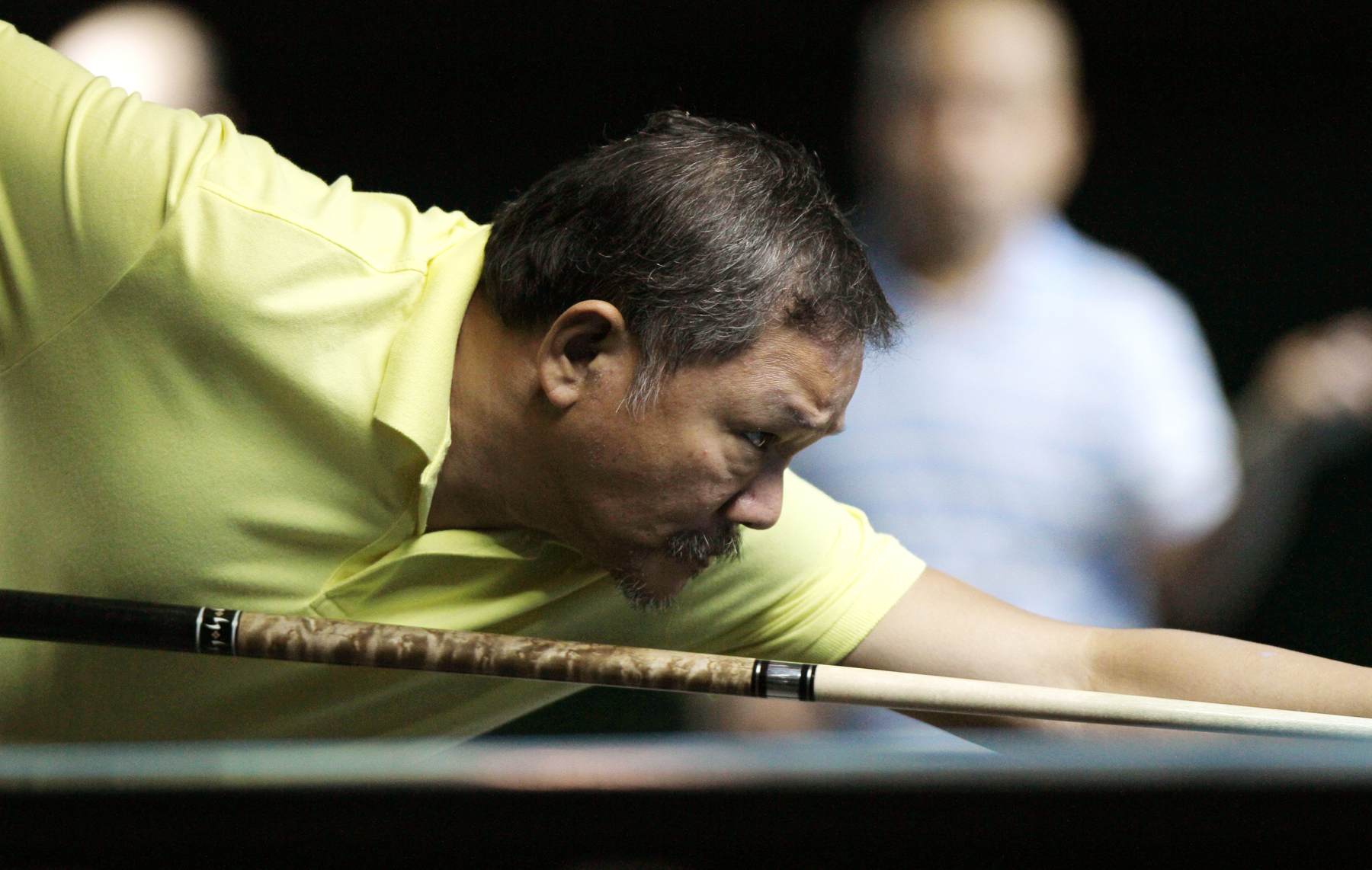 Filipino superstar Efren Reyes competes in the World 9-Ball Pool Championship in Doha. Picture by Vinod Divakaran